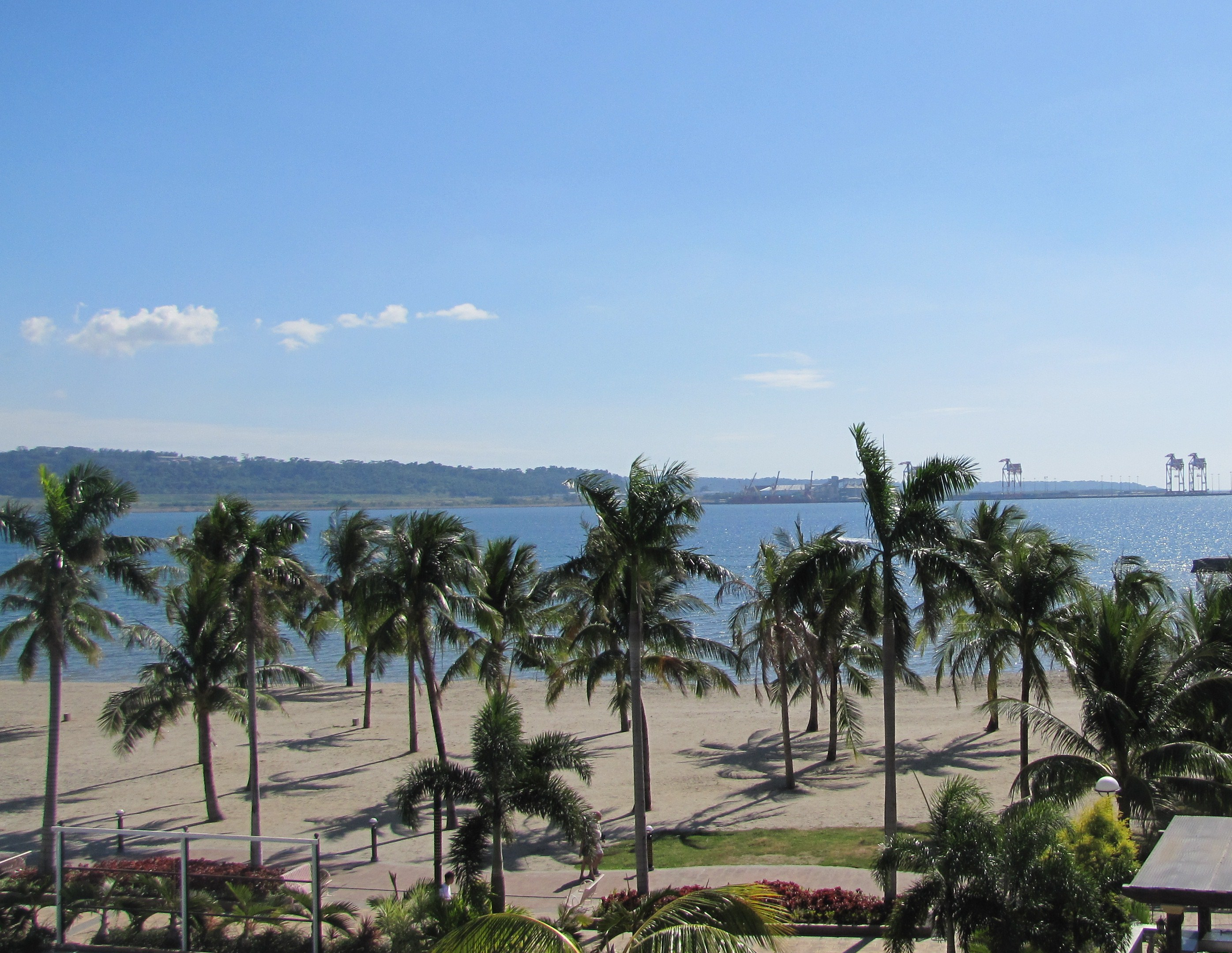 The Boardwalk at Subic Bay Zambales, Philippines